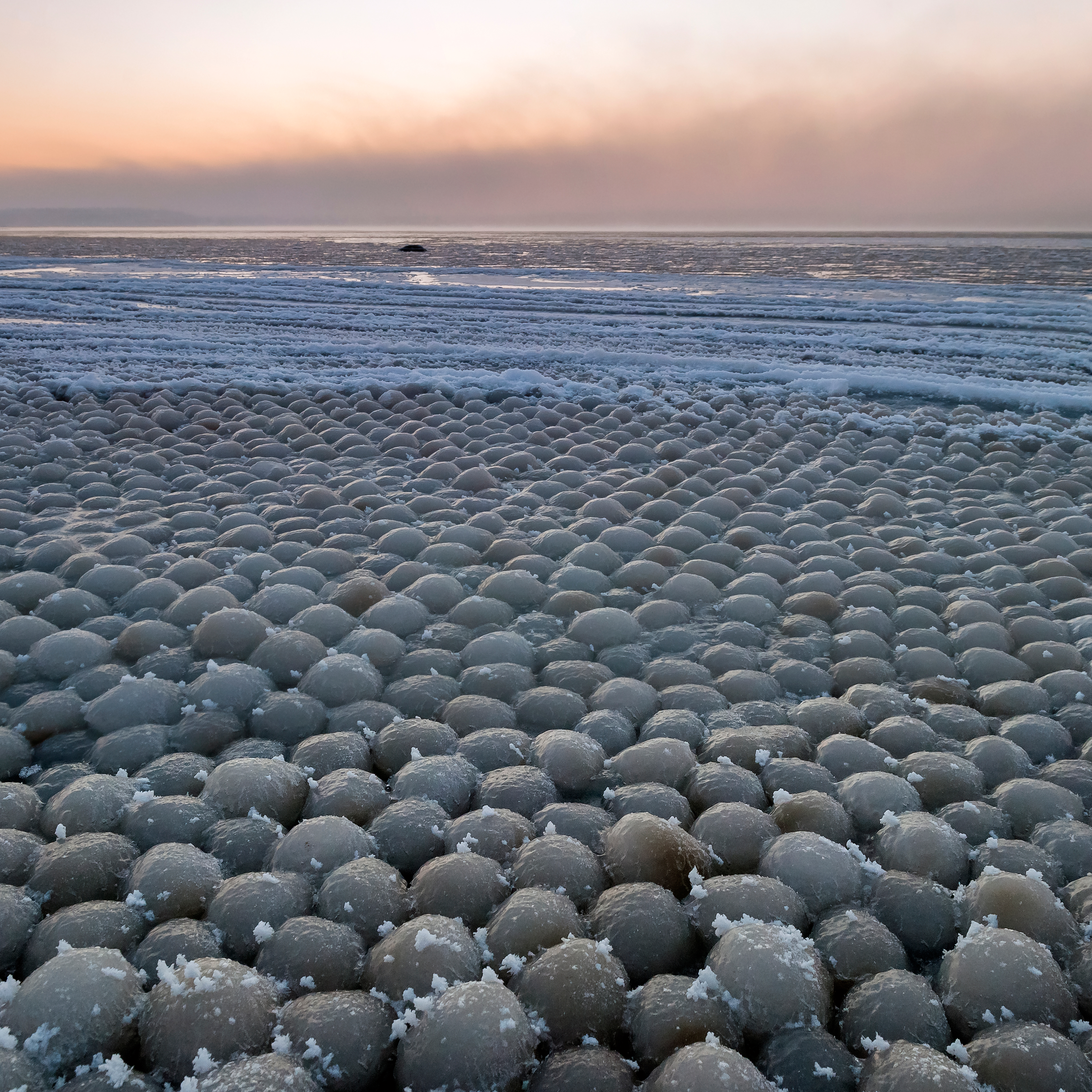 Natural phenomena. Formation of ice balls (diameter 5–10 cm) in Stroomi Beach, Tallinn, Estonia. Sunset with the mist over the sea. Temperatures around minus 15–20 degrees.